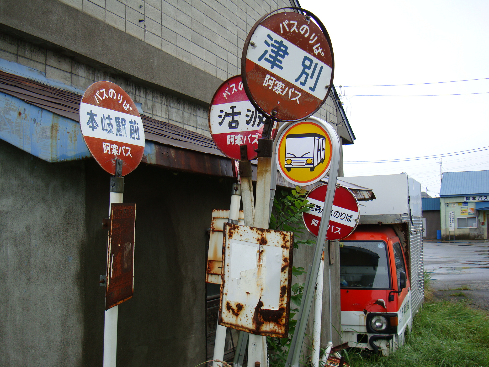 Akan Bus Disused Bus stops on Bihoro depot